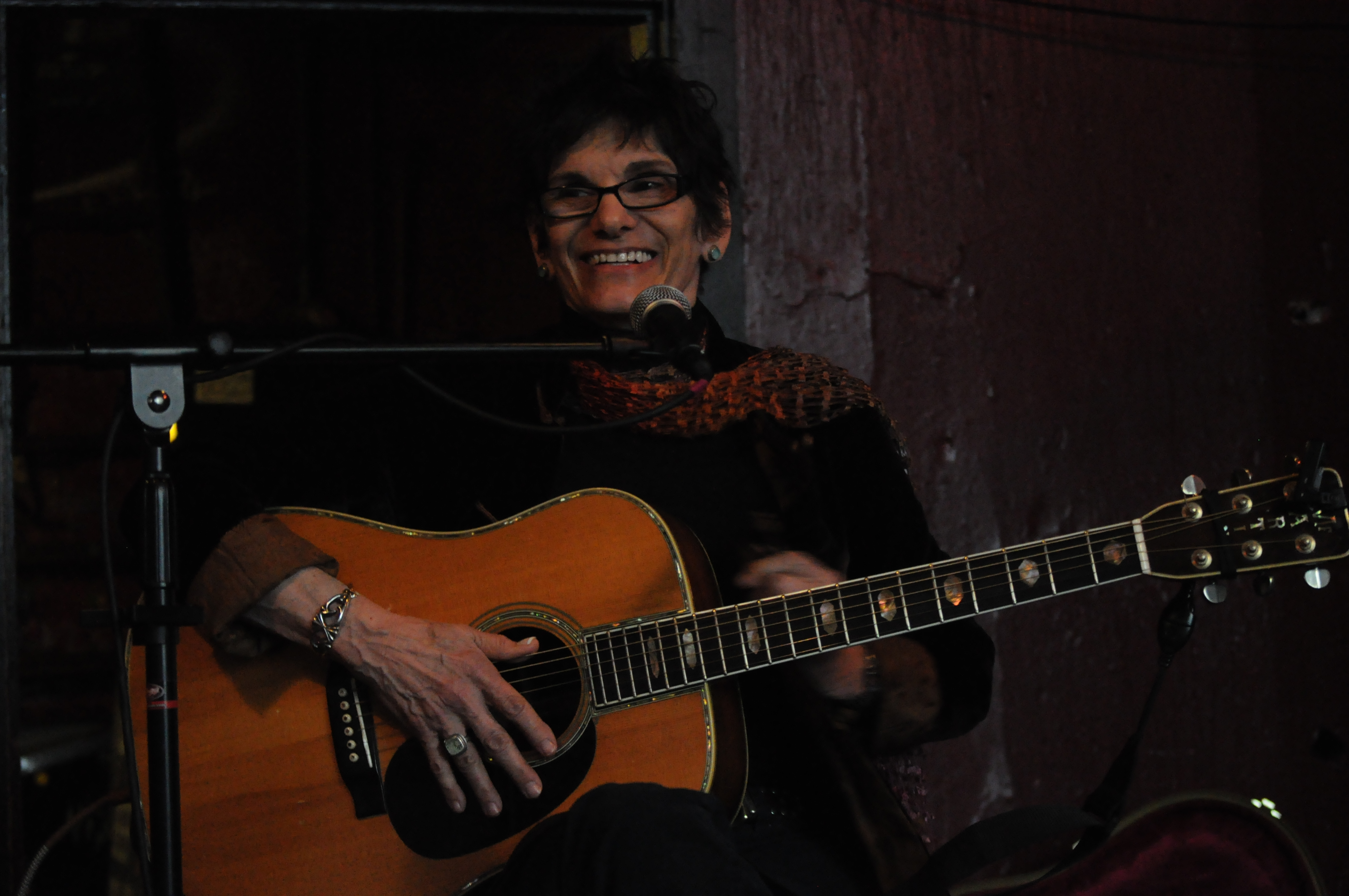 Ruthann Friedman performing at the Comet Tavern, Seattle, Washington.